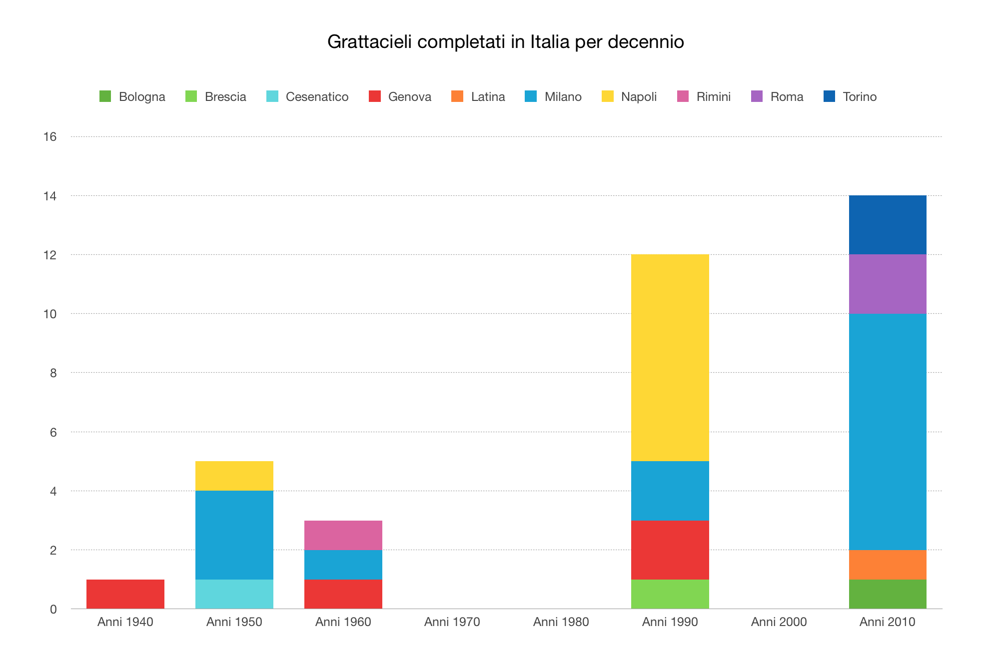 Skyscrapers completed in Italy for decades since 1940